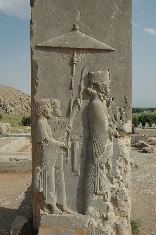 Relief of the Persian king Xerxes (485-465 BC) in the doorway of his palace at Persepolis, modern-day Iran. The bearers of the parasol and the towel-and flywhisk symbolize the royalty and power of the monarch.